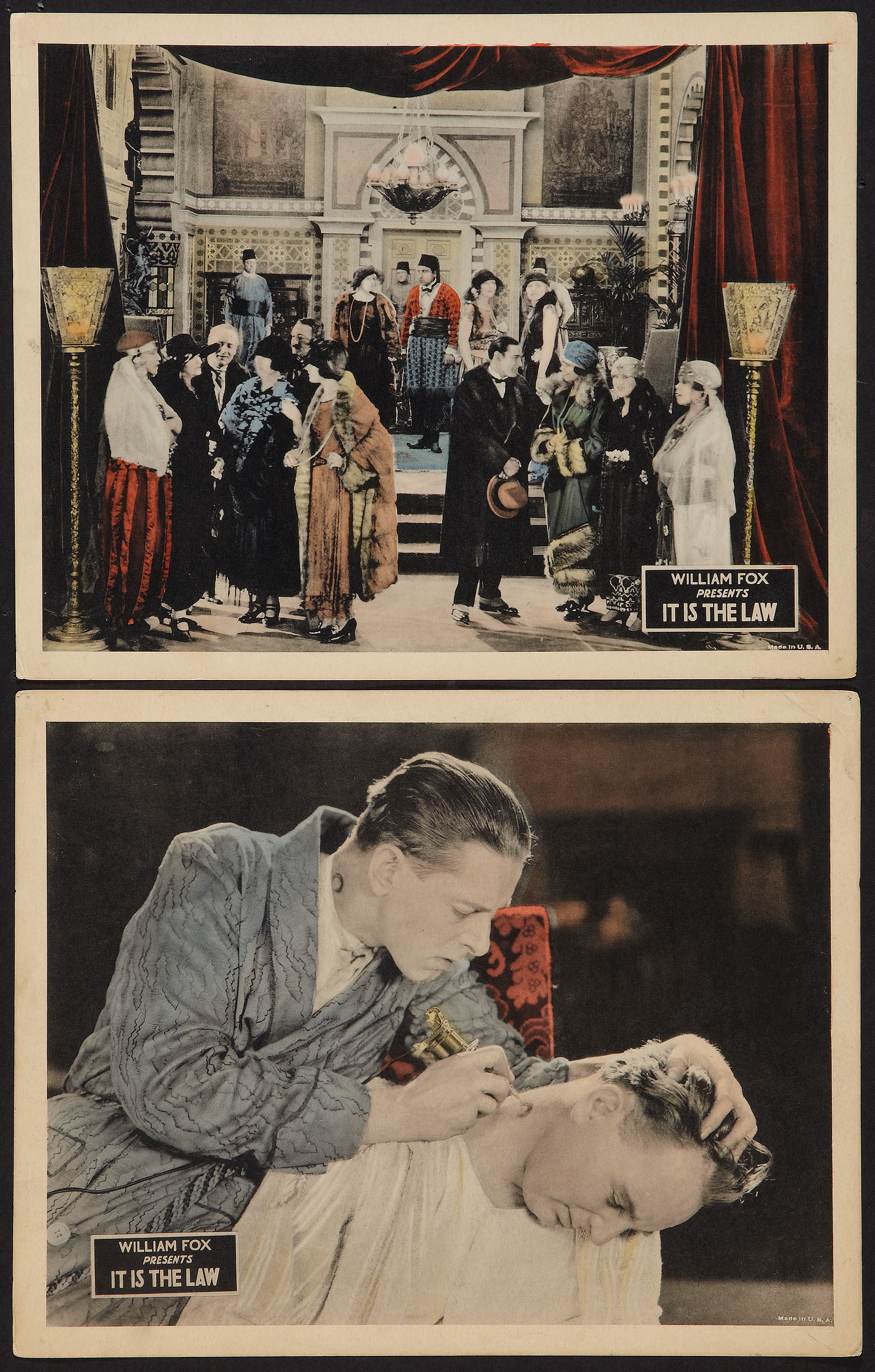 A pair of lobby cards issued as advertising material for the Fox Film production It Is the Law (1924).